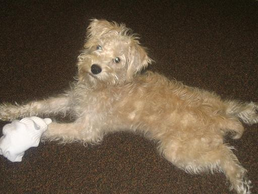 Picture of a Schnoodle (a cross between a Schnauzer and a Poodle), taken by Silentcrs.